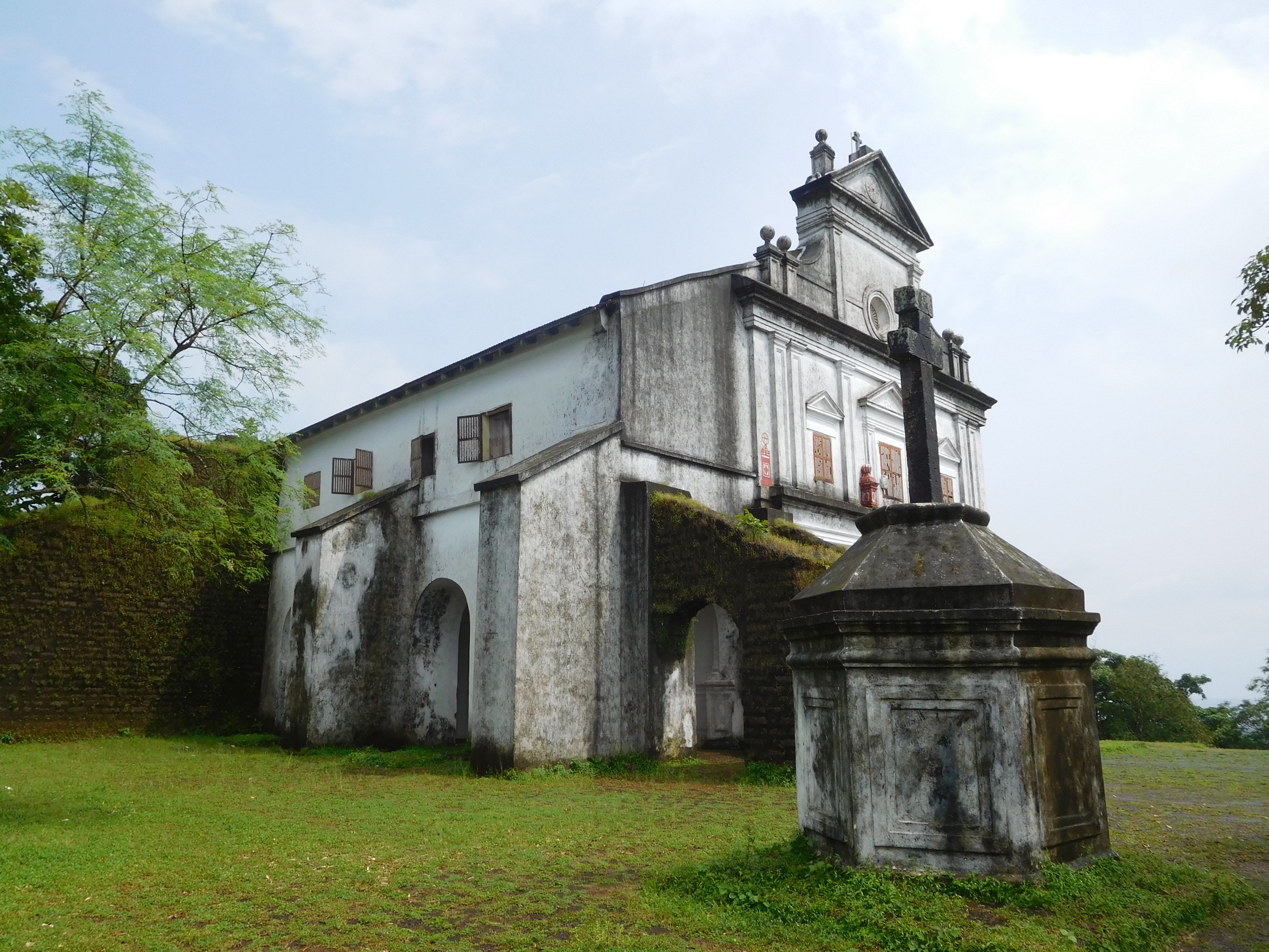 The chapel 'Our Lady of the Mount', built in the XVIth century, is on the eastern hill of Old Goa. It can be reached by a long flight of steps.